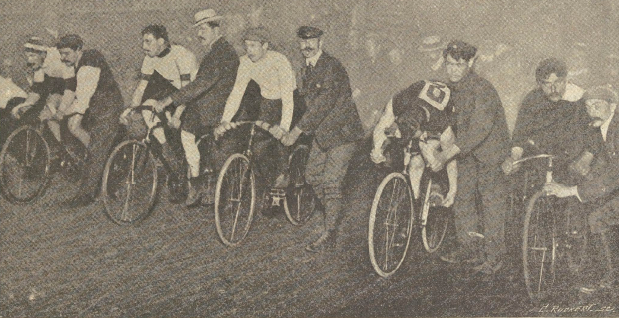 Sart of the Bol d'Or at the Buffalo velodrome (Paris-1904). From left to right. Laeser, Petit-Breton, Muller, Leander and Georget